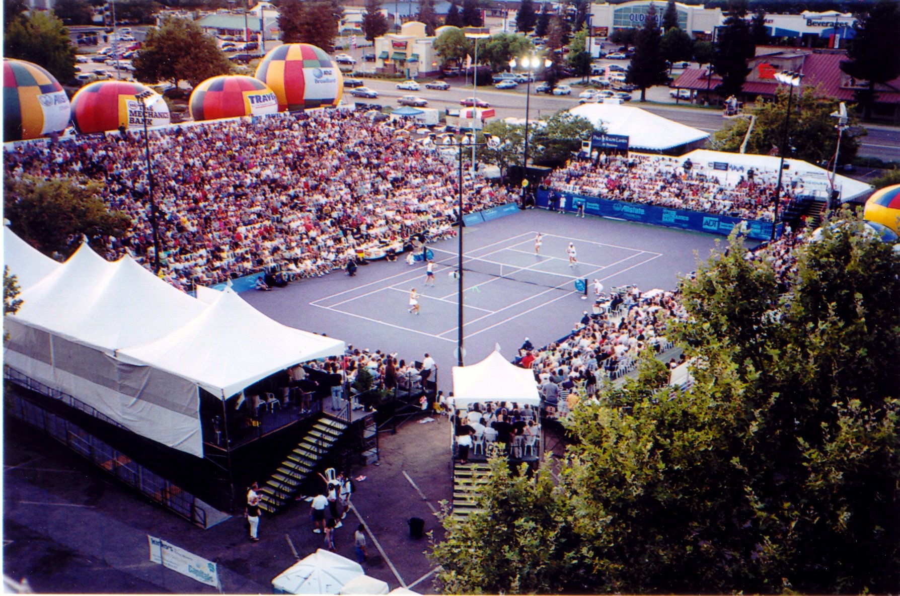 Overhead view of Sacramento Caps Game